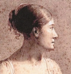 Selfportrait by Constance Marie Charpentier